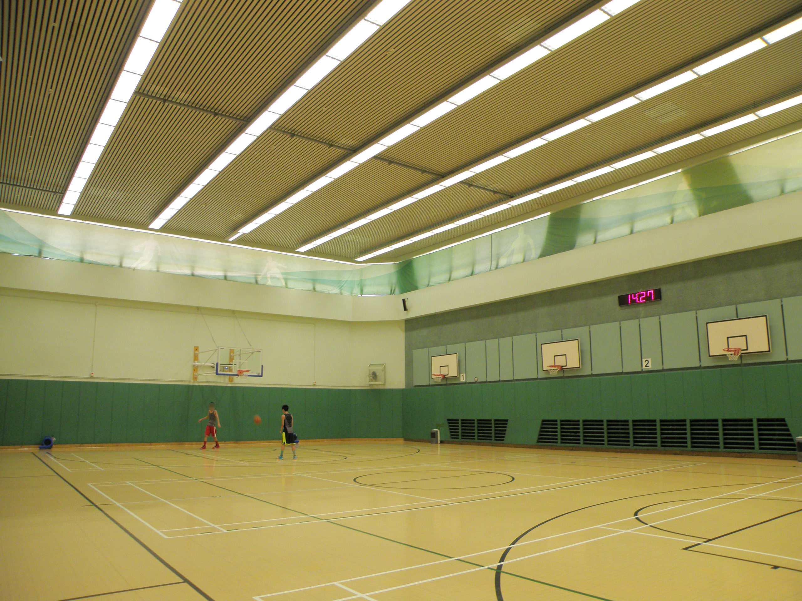 Hin Keng Sports Centre in Tai Wai, Hong Kong.